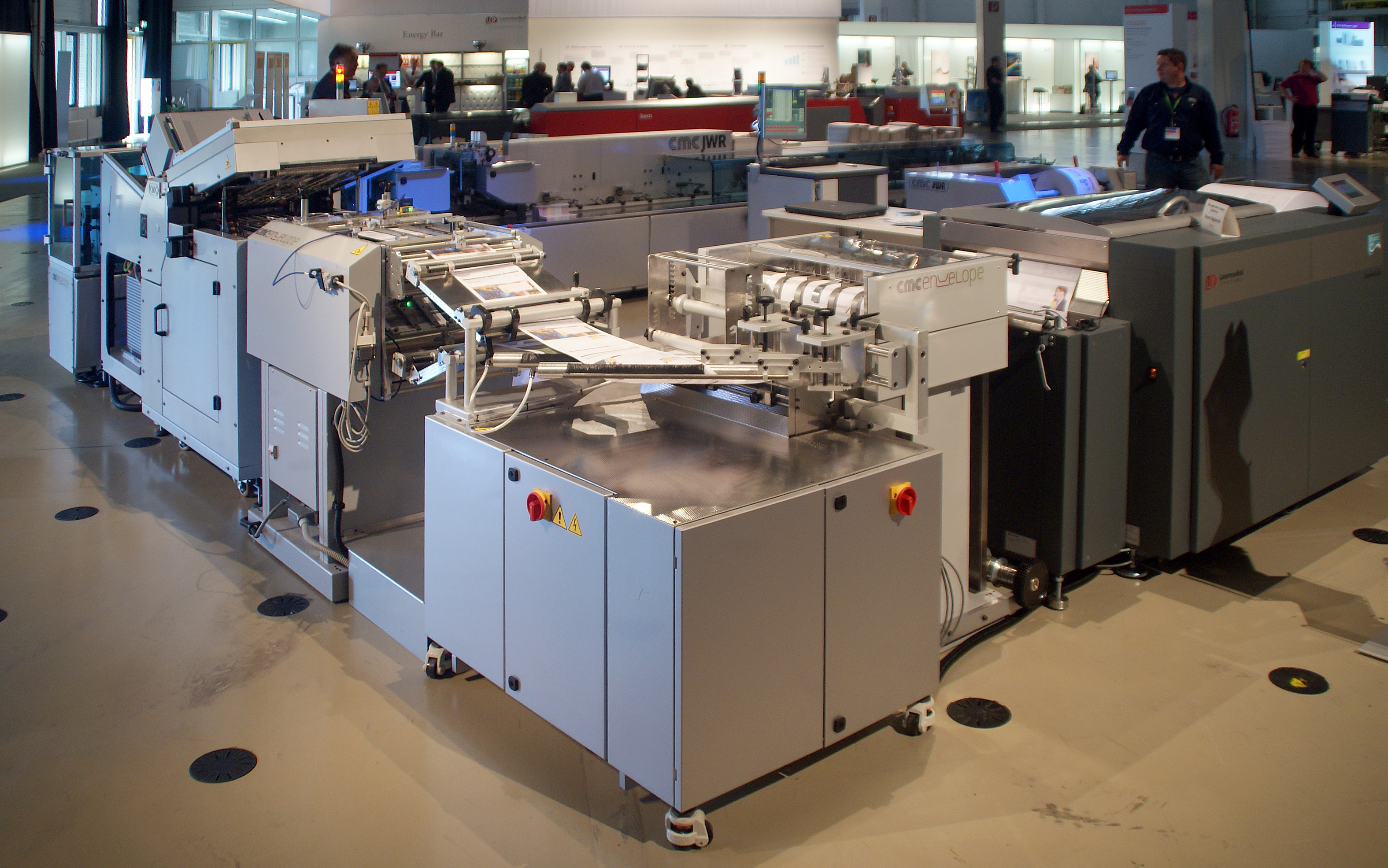 Weiterverarbeitung in der Mailing-Produktion; im UZS: Abrollung der personalisierten Drucke, Querschnitt zu Einzelbogen, 90°-Drehung, Parallelfalzung im Zwei-Taschen-Falzapparat, Einstecken in Kuverts, Verschließen und ggf. Inkjet-Adressierung